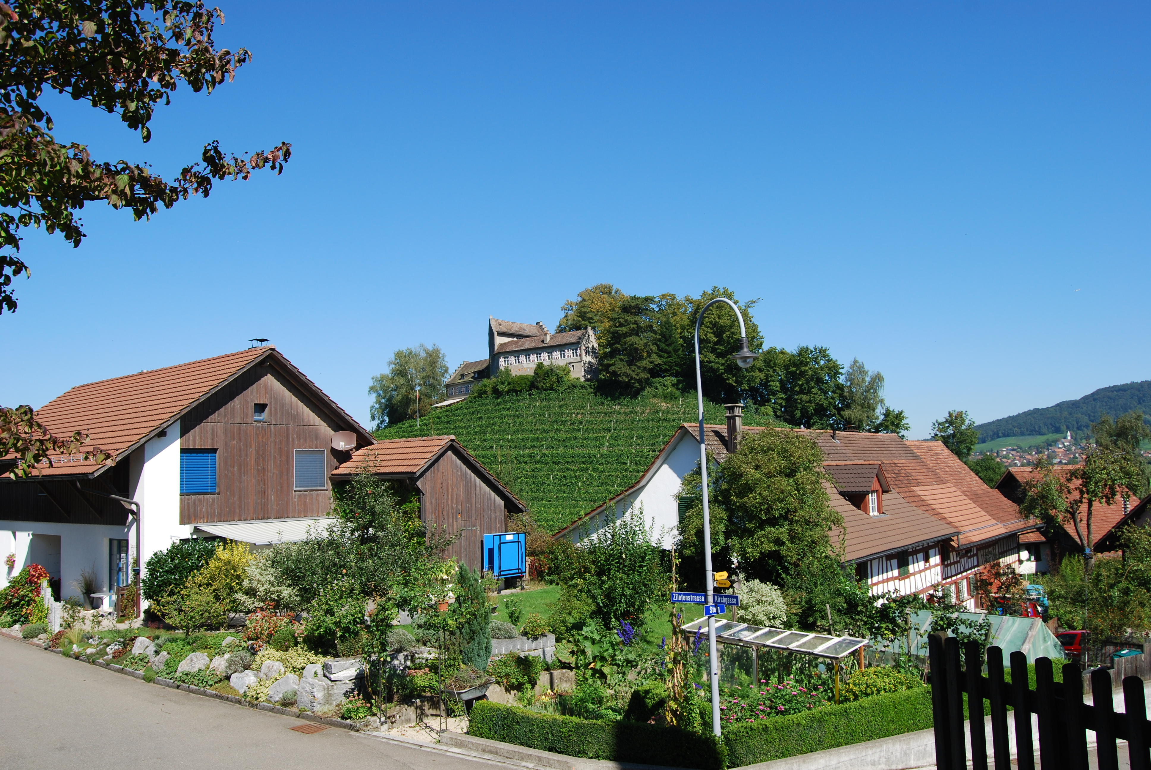 Castle Schwandegg, Waltalingen, canton of Zürich, Switzerland